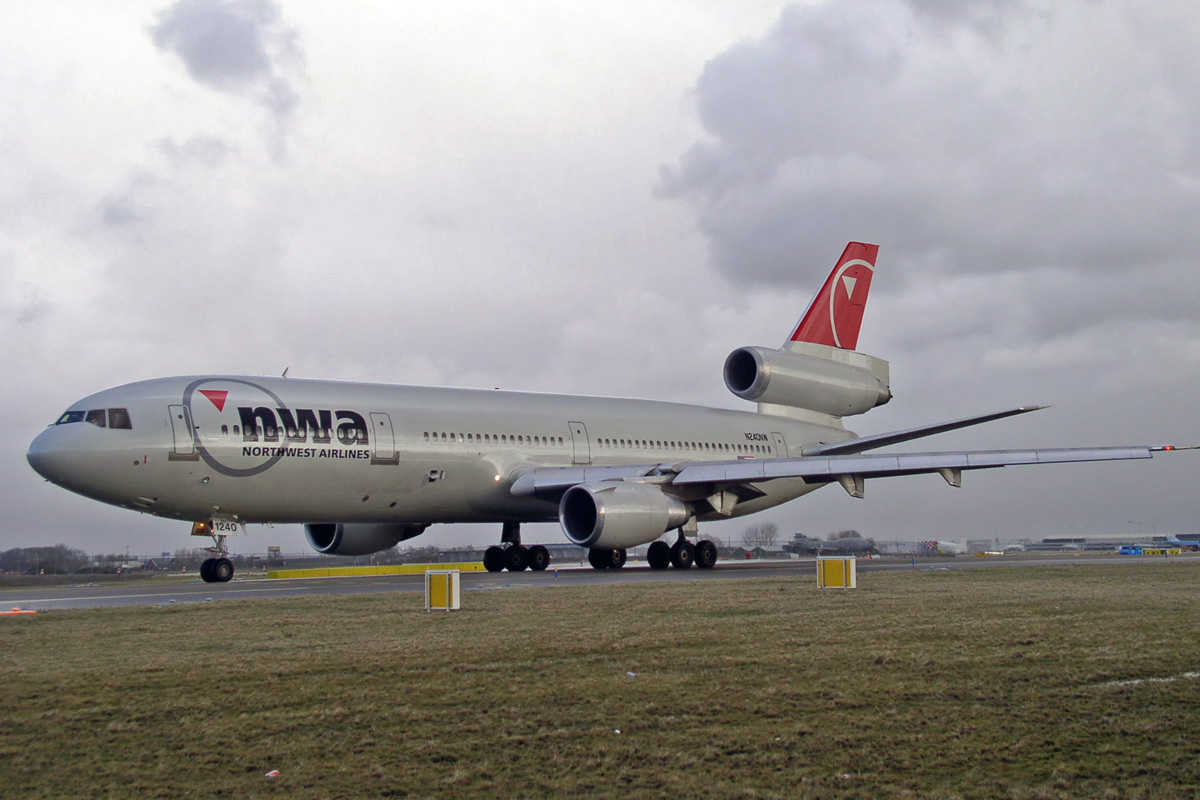 McDonnell Douglas DC-10-30(ER) Amsterdam schiphol EHAM (19-02-2005)